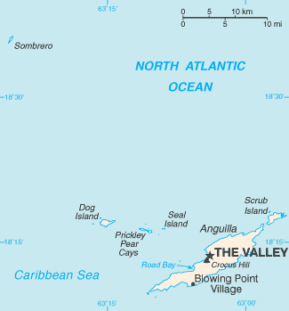 Map of British overseas territory of Anguilla, comprising main eponymous island and smaller islets and cays.